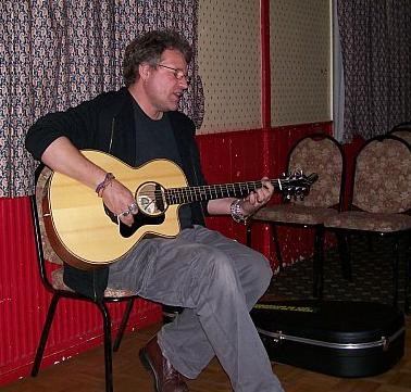 Robb Johnson photographed performing at Faversham Folk Club, 28 November 2007